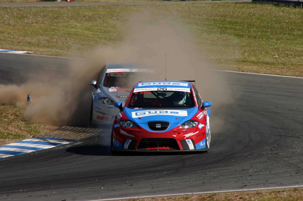 Sebastian Asch in his Seat Leon in race